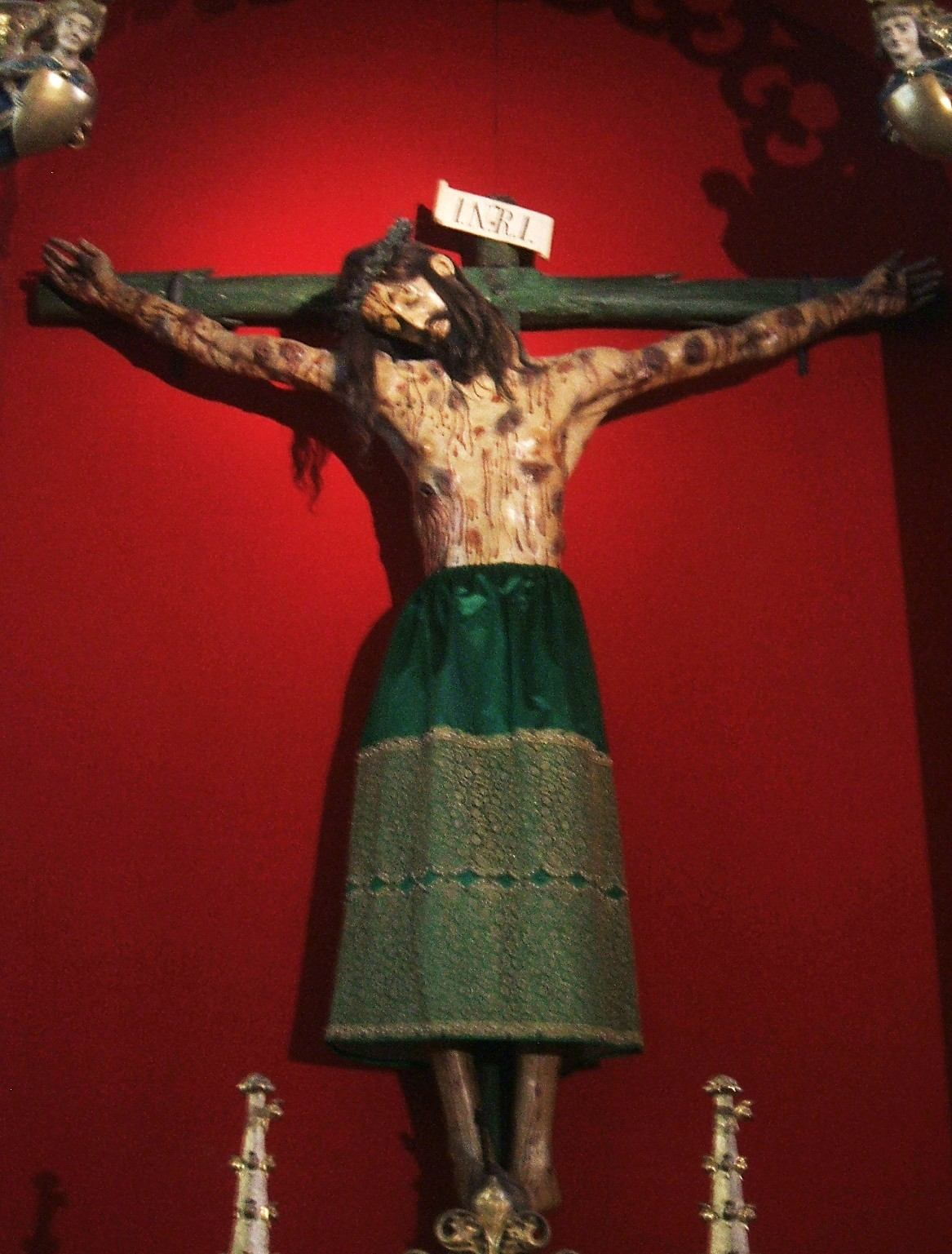 El Santísimo Cristo de Burgos, en la Capilla del mismo nombre sita en la Catedral de Santa María. Burgos (España)